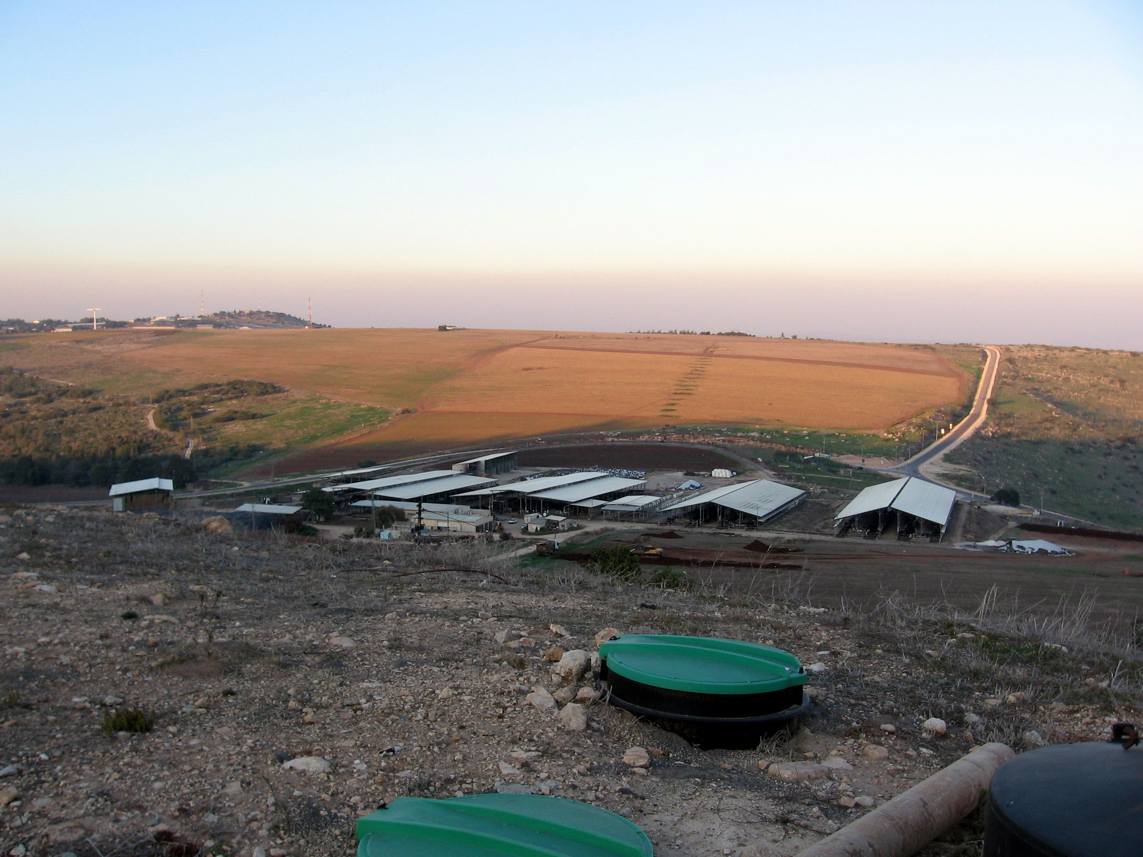 Kibbutz Meirav Dairy